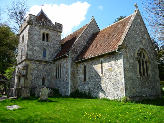 Allington - St John The Baptist Church A flint built country church.